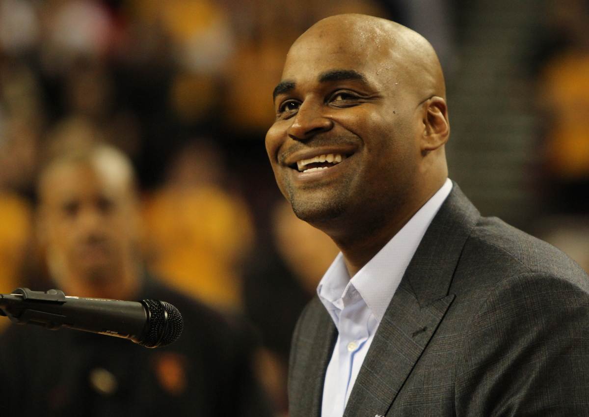 Harold Miner